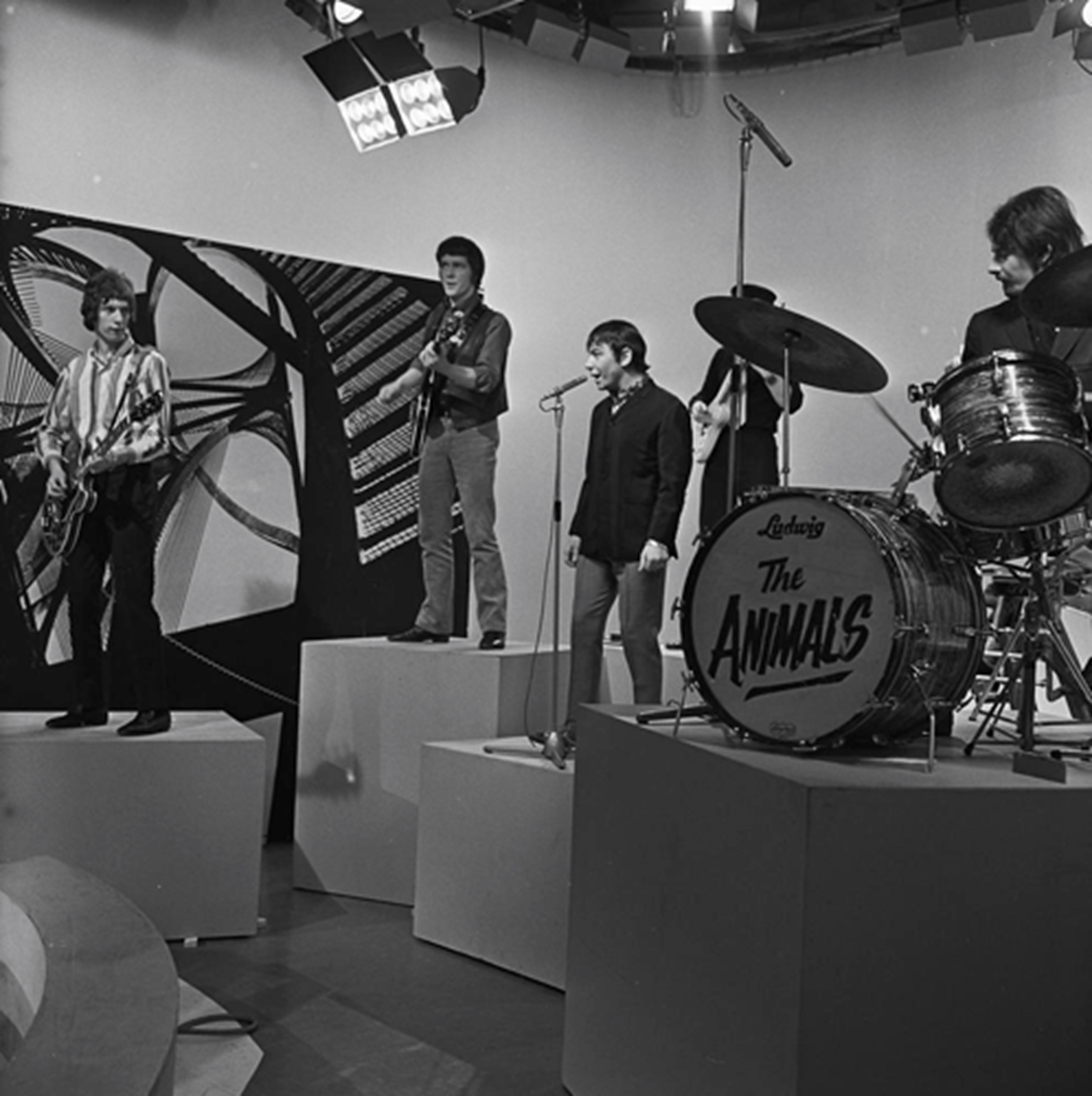 Eric Burdon & The Animals performing the songs "Hey Gyp" and "See see rider" in the Dutch TV programme Fanclub. Recorded 7 January 1967, broadcast 13 January 1967